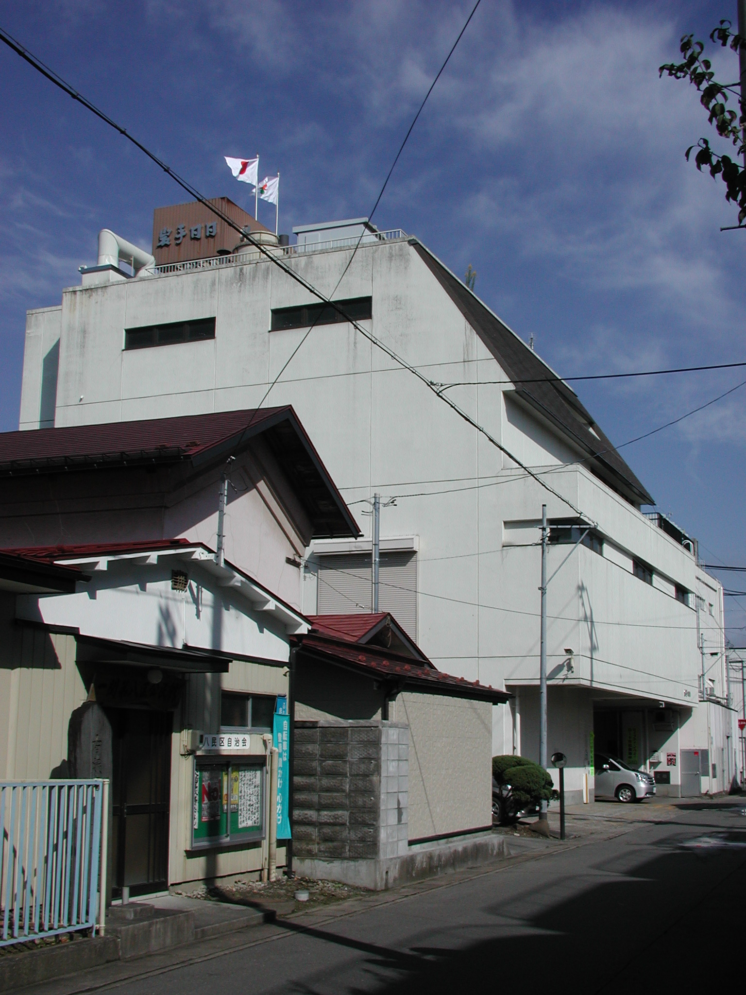 The Iwate Nichinichi Shimbun Head Office